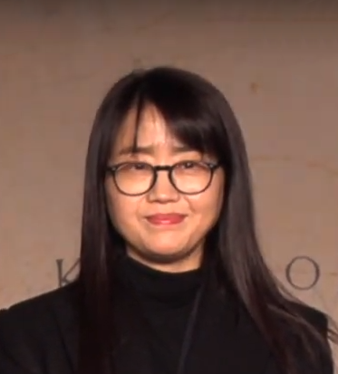 Kim Eun-hee in the press conference of Netflix's original series, Kingdom